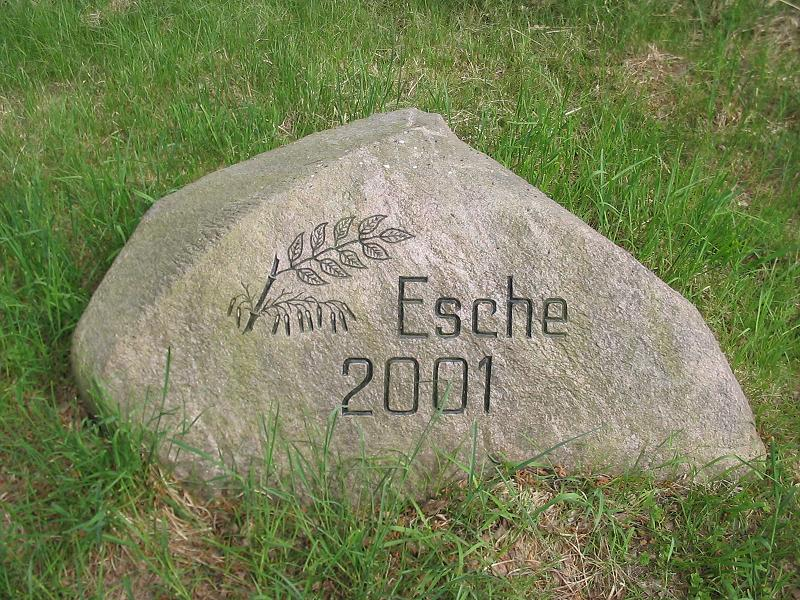 Glacial_erratic with inscription for the „Tree of the year“ 2001 in Germany European Ash (Fraxinus excelsior), german:Esche. Found in Belzig in Brandenburg, Germany.